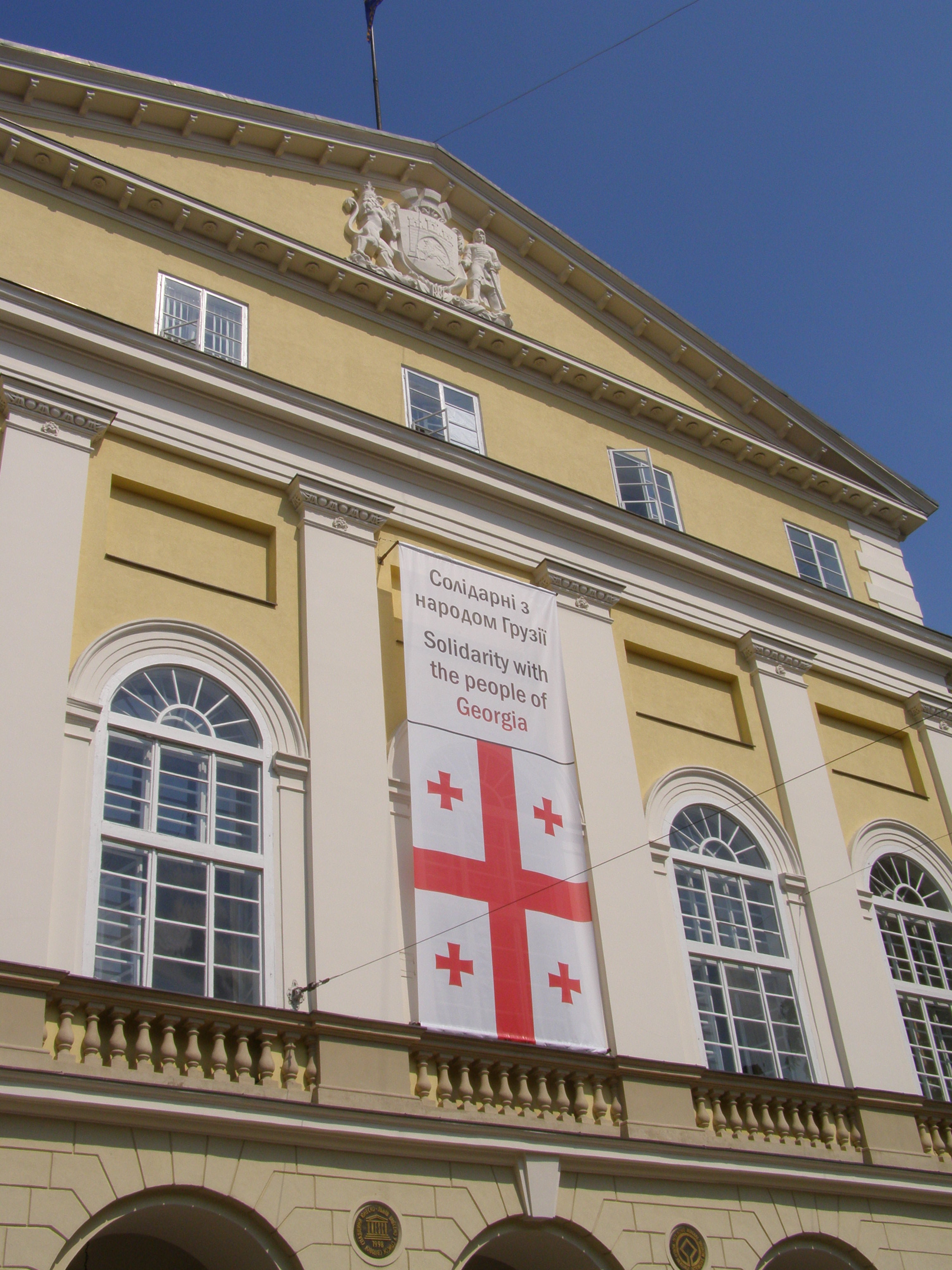 Lviv, Town Hall, solidarity with Georgia